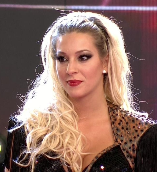 Noelia Marzol en su debut en el Bailando 2015 durante la gala de disco